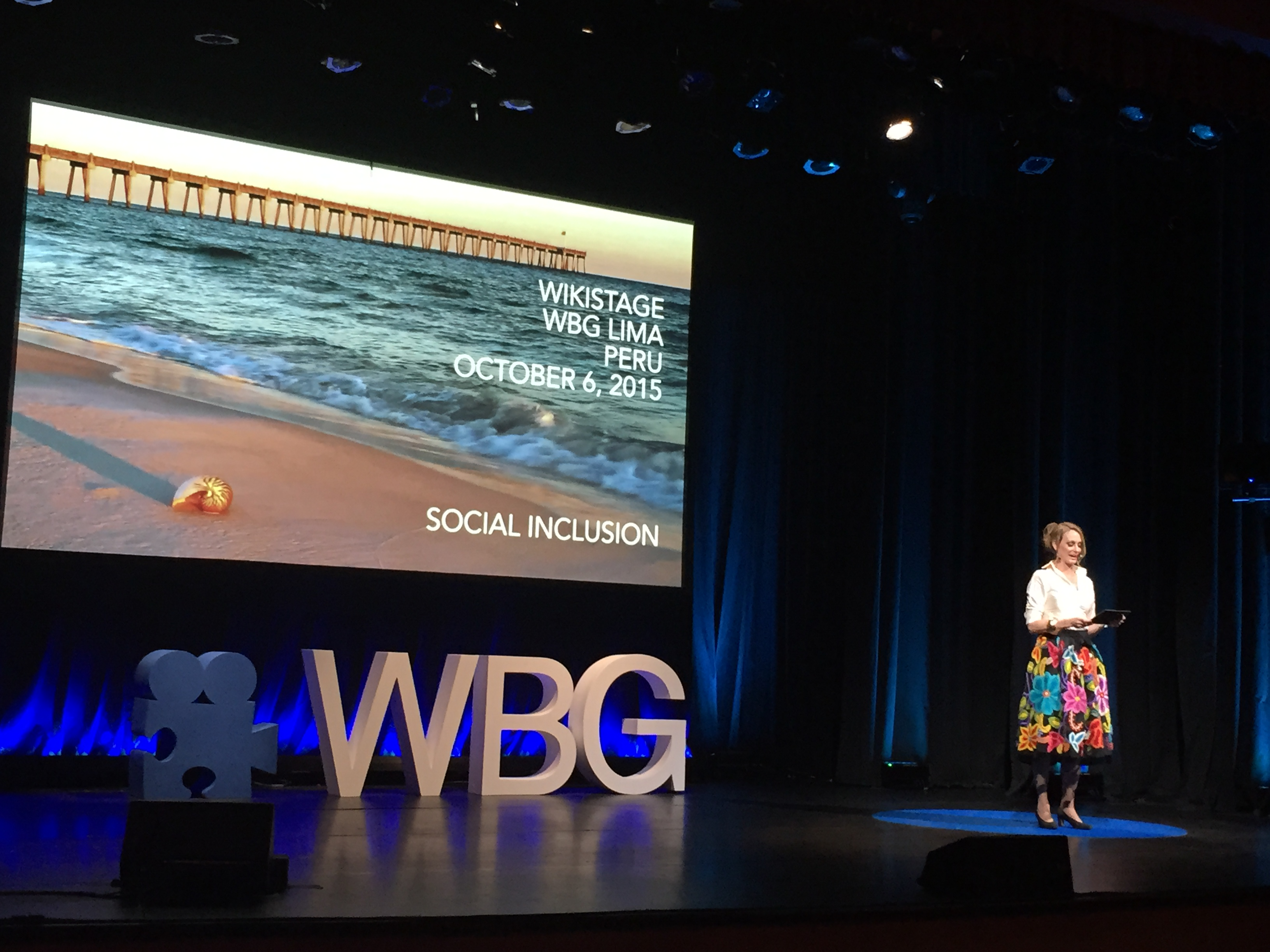 Lizensiertes Partnerevent von WikiStage, Worldbank Group, Lima, Peru